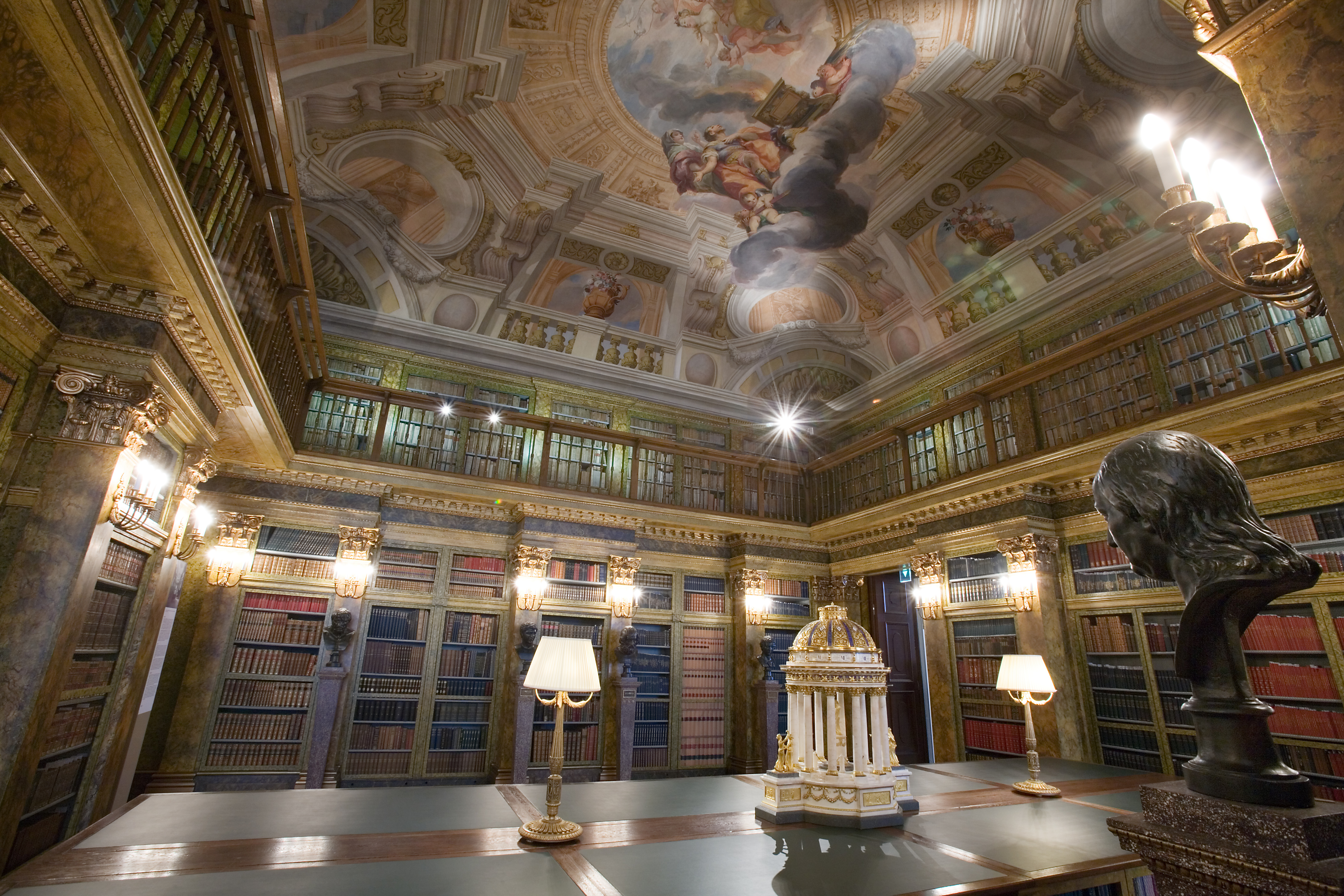 Liechtenstein Museum and Library Vienna, Austria